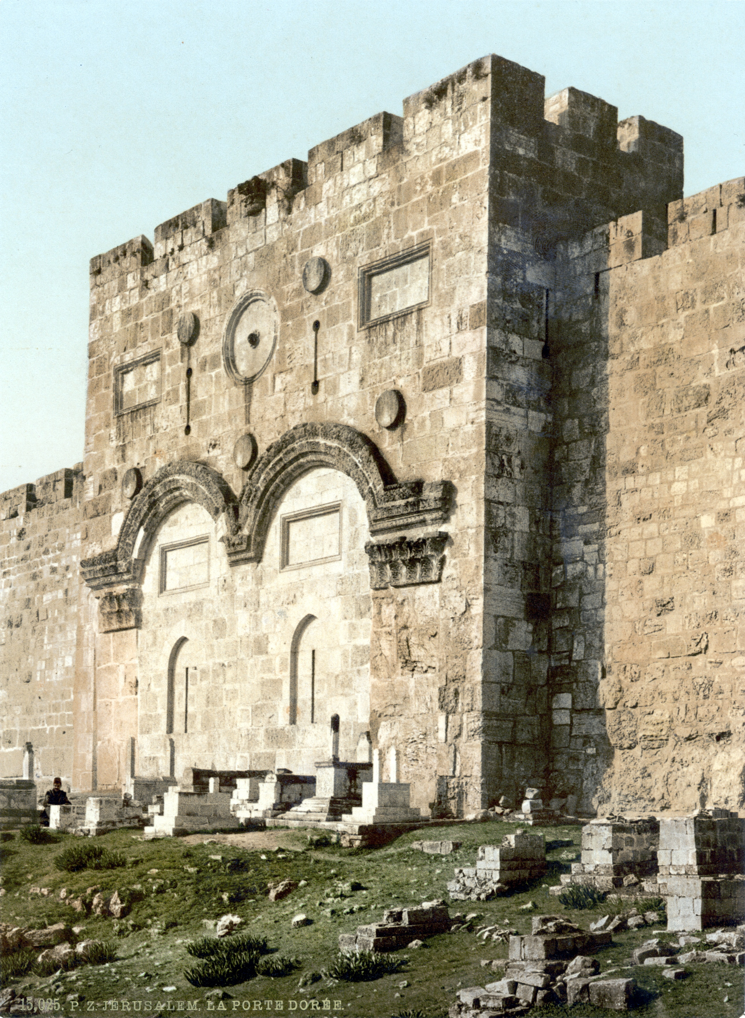 Jerusalem mercy gate, between 1890 and 1900.